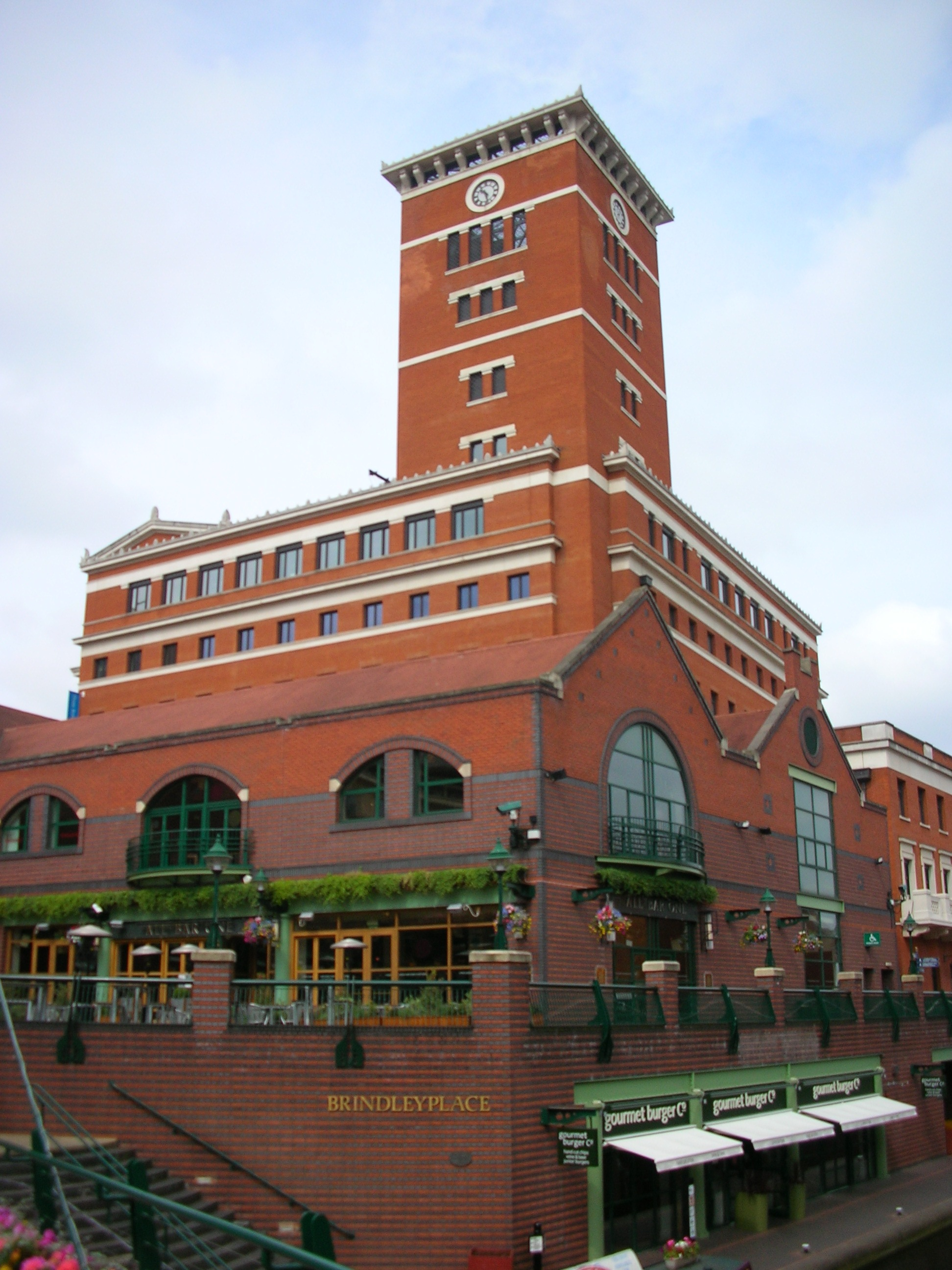 Brindleyplace from the canal beside the International Convention Centre, Birmingham, England. Above one of The Water's Edge restaurants can be seen the red brick building Three Brindleyplace with its distinctive landmark tower. Photographed by me 26 June 2006. Oosoom